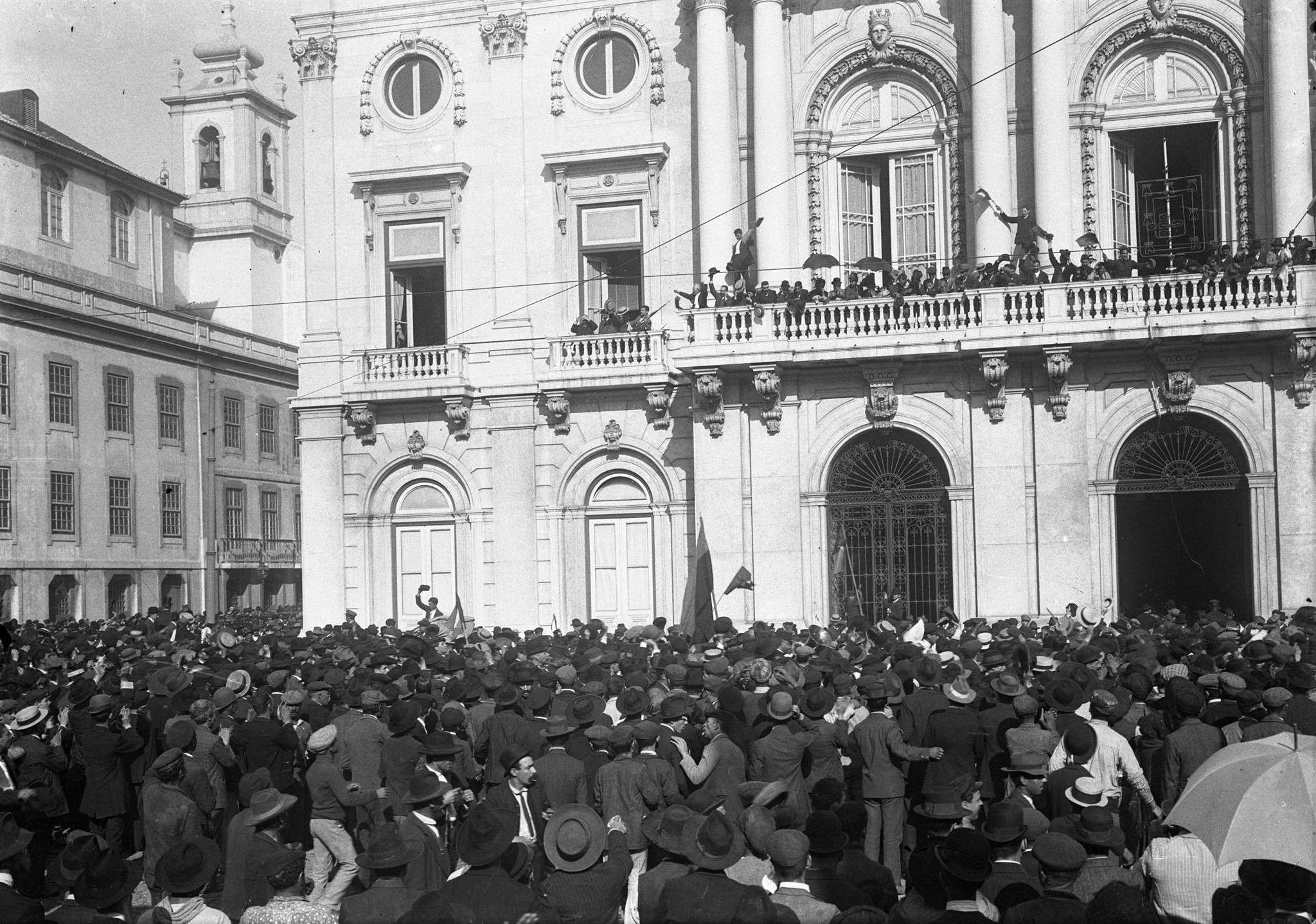 The Revolution of 14 May 1915, in Lisbon. The crowd in front of the City Hall listens to the Revolutionary Junta.